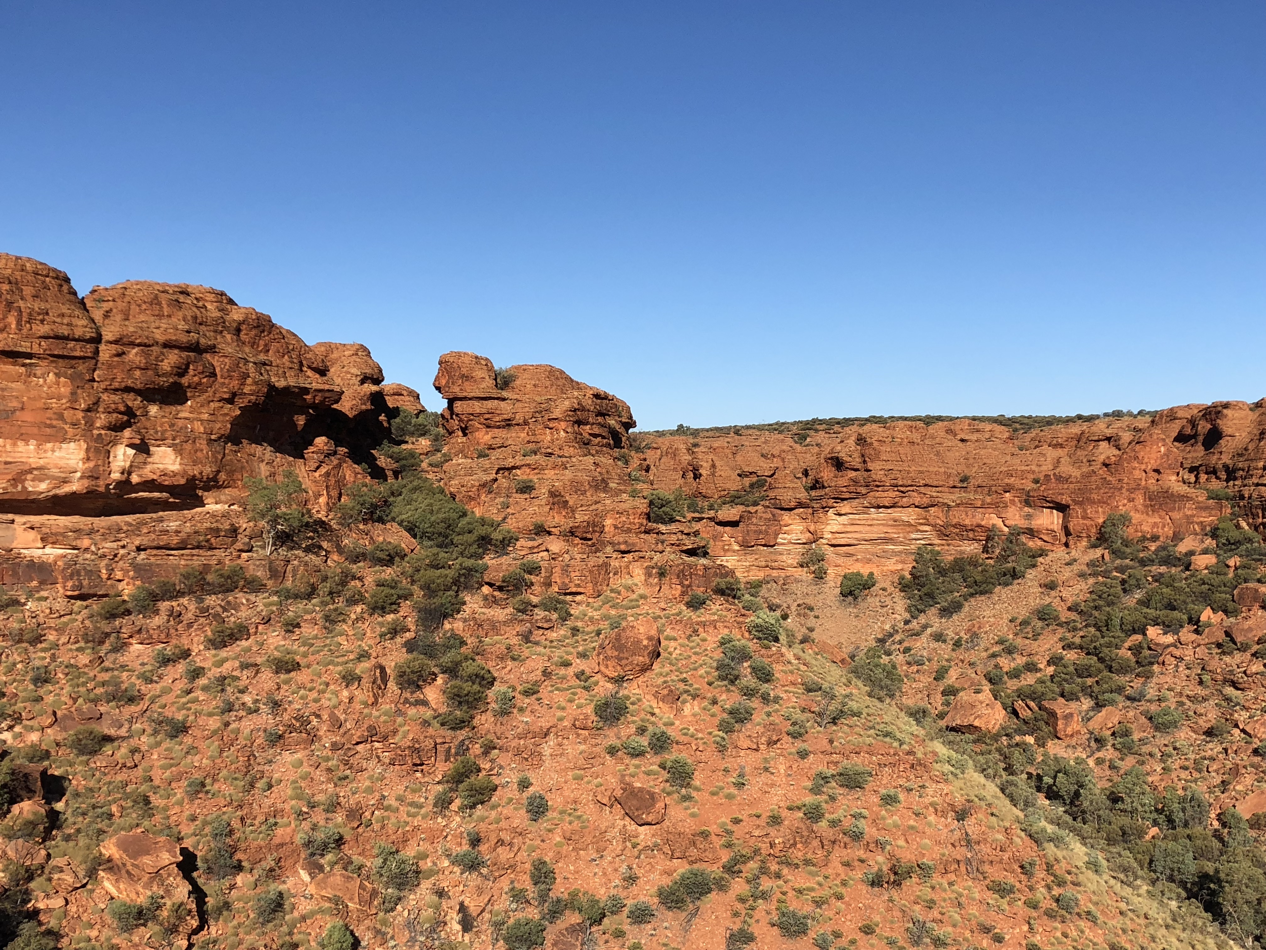 Kings Canyon walk